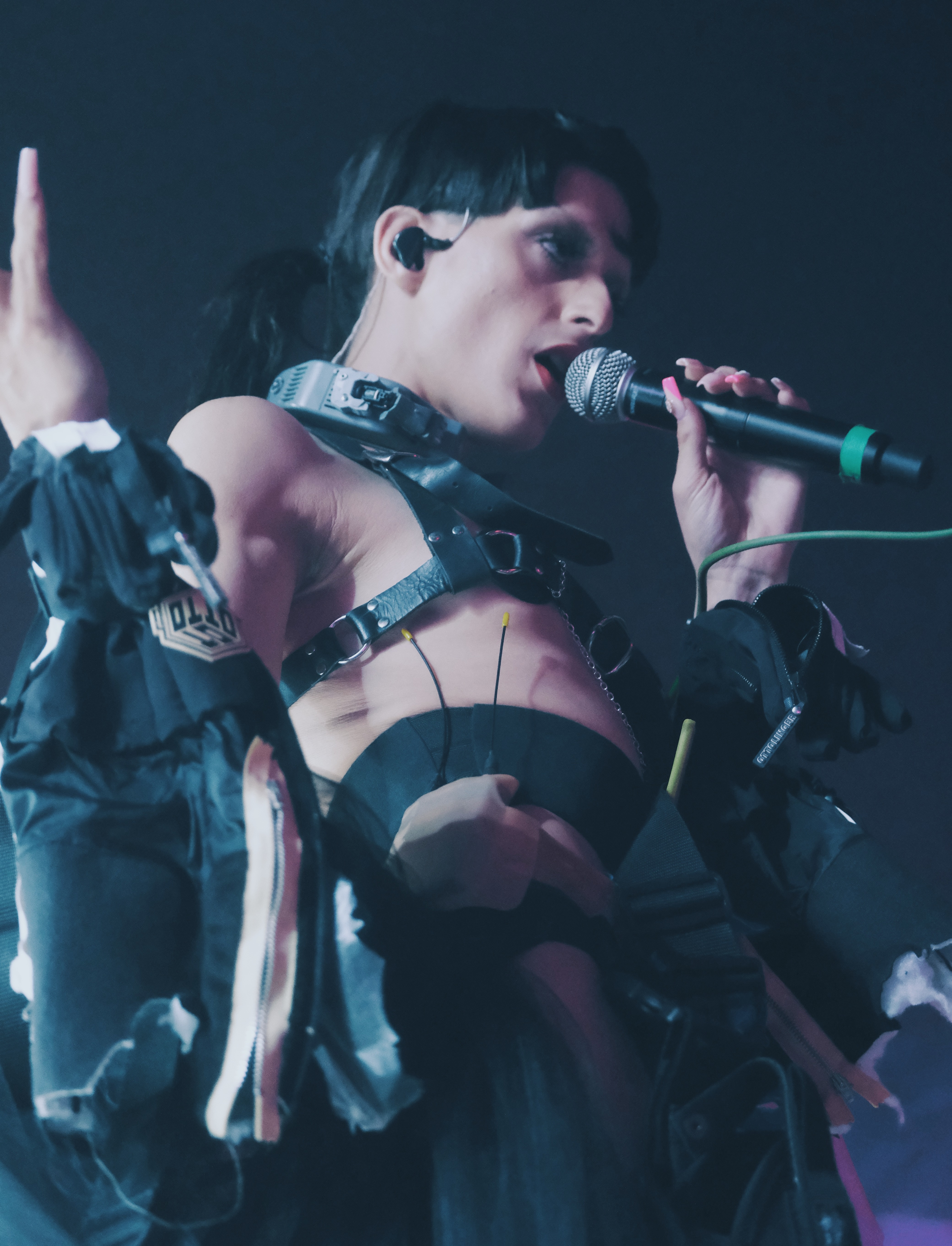 Arca at Sónar Festival in Barcelona, 18 July 2019.